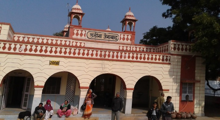 photo of dahina zainabad railway sation